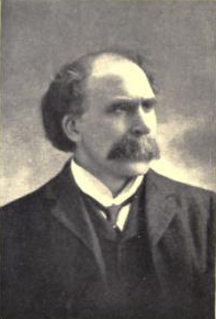 John Adam Cramb (1861-1913) Professor of Modern History, Queen's College fervent patriot